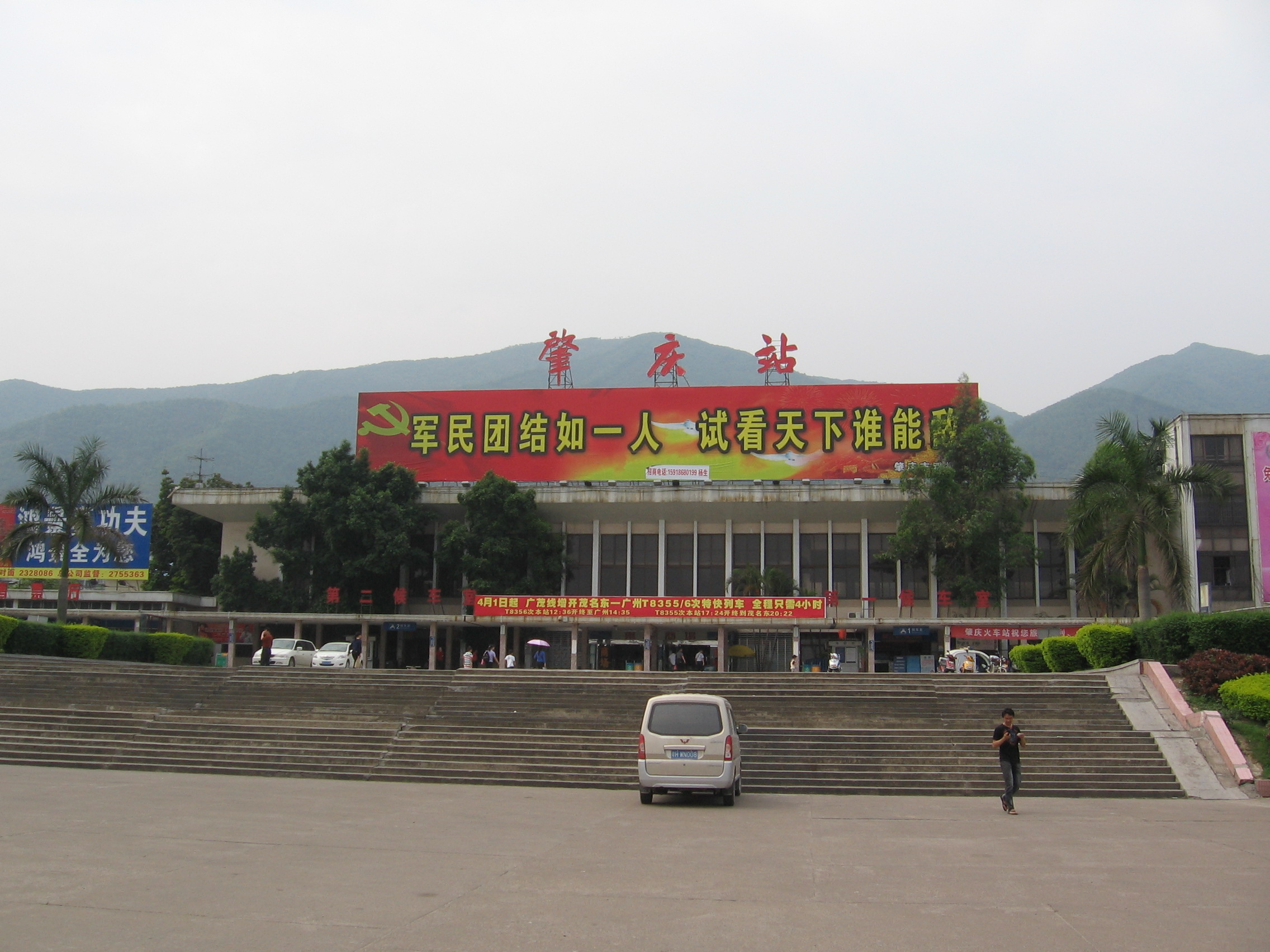 Zhao Qing Station, Guangdong